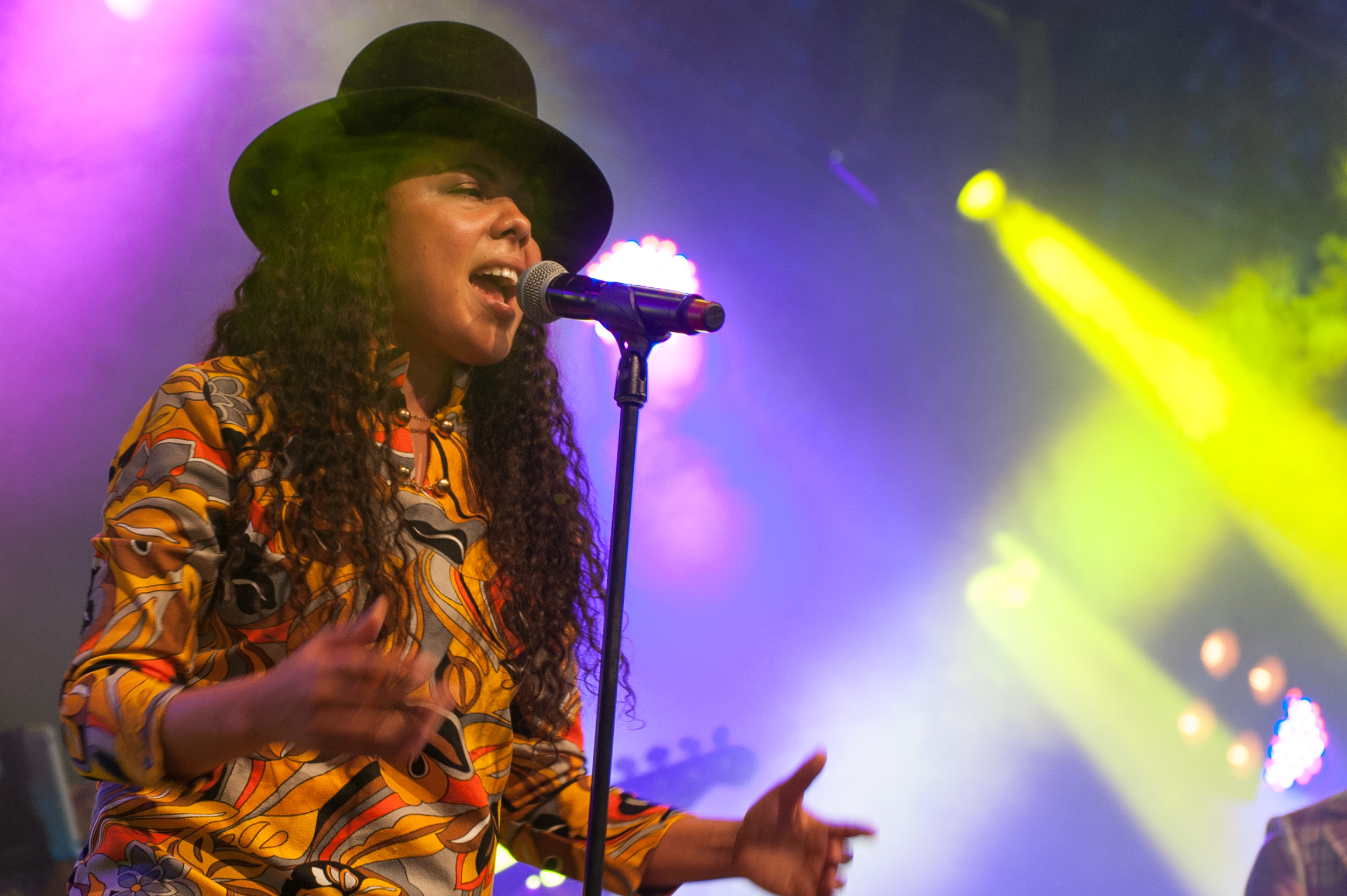 Mapei at Way Out West in Gothenburg, Sweden, August 2014